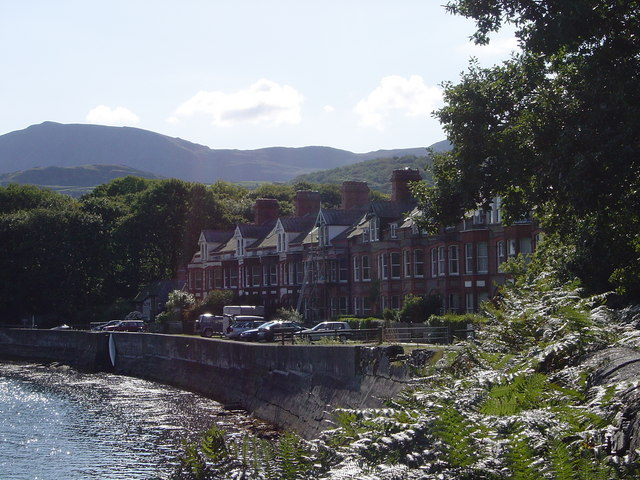 Mawddach Crescent, Arthog. The entrepreneur Solomon Andrews intended this to be just the start of a purpose-built seaside resort. Mawddach Crescent was completed in the first years of the 20th century, but the land roundabout was too boggy - and so this stands in glorious isolation.